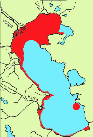 The range of the Caspian stellate tadpole-goby (Benthophilus leobergius)